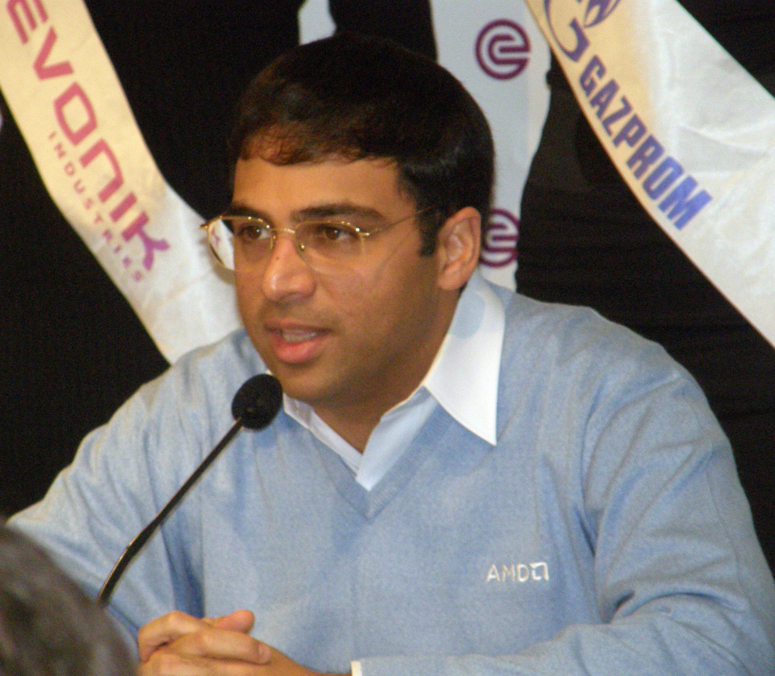 World Chess Championship 2008. News conference. Viswanathan Anand.